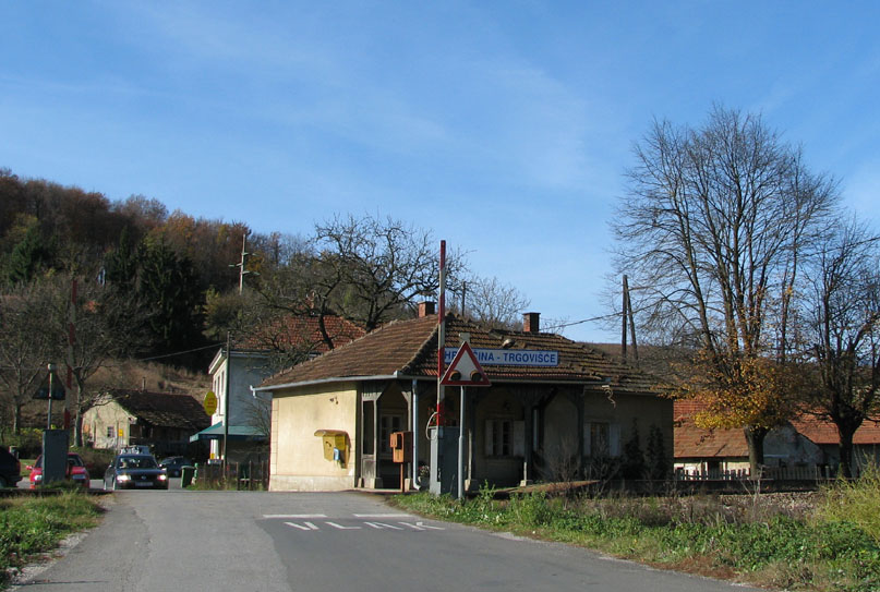 Hraščina-Trgovišće train station, Krapina-Zagorje County, Croatia